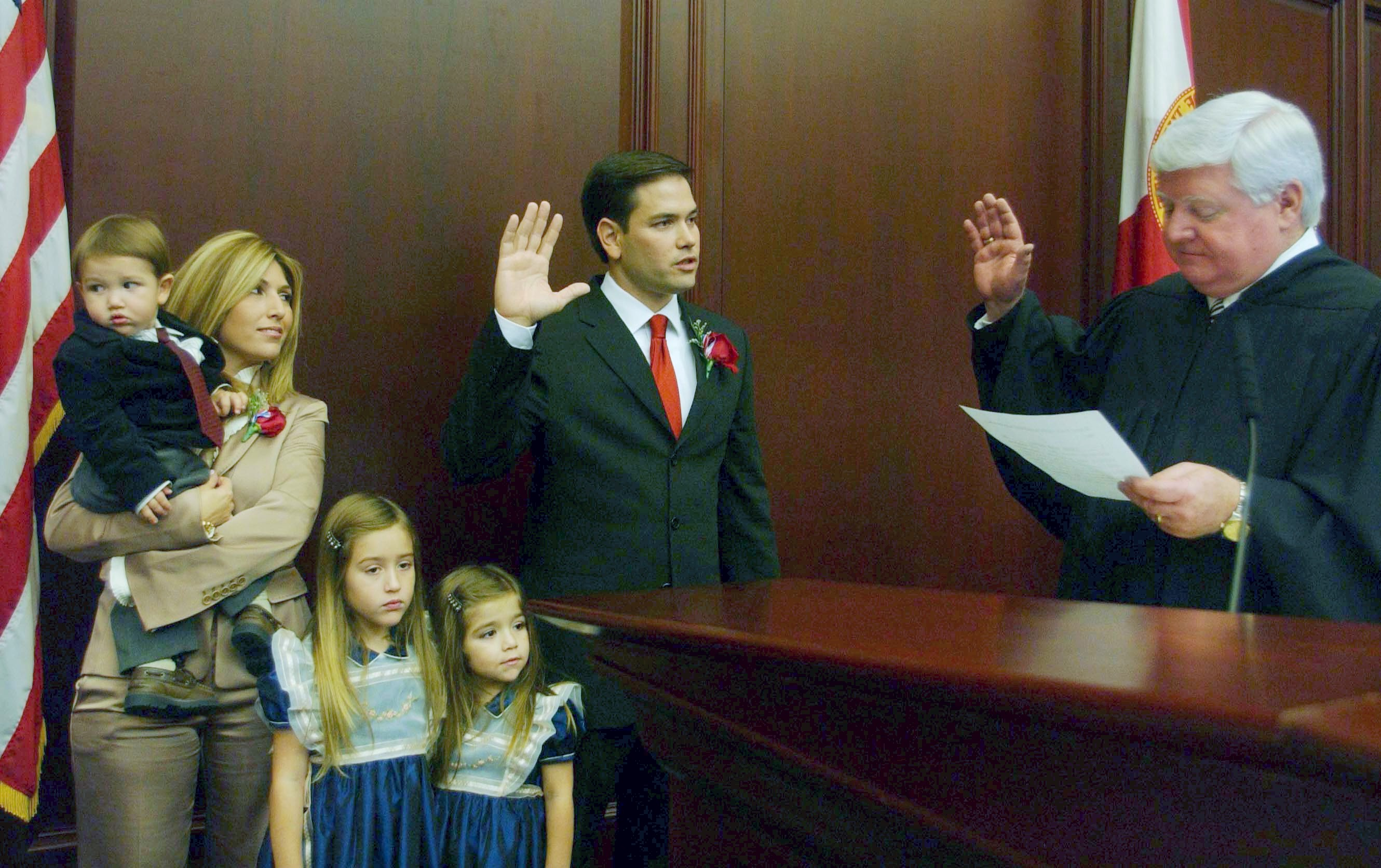 Newly-elected Speaker Marco Rubio, R-Miami, is officially sworn into office by Judge R. Fred Lewis, during ceremonies on Nov. 20, 2006 with his family at his side Tuesday, Nov. 21, 2006 in Tallahassee, Florida. Family members from the left are: Mrs. Jeannette Rubio with son Anthony in her arms and daughters Daniella & Amanda.